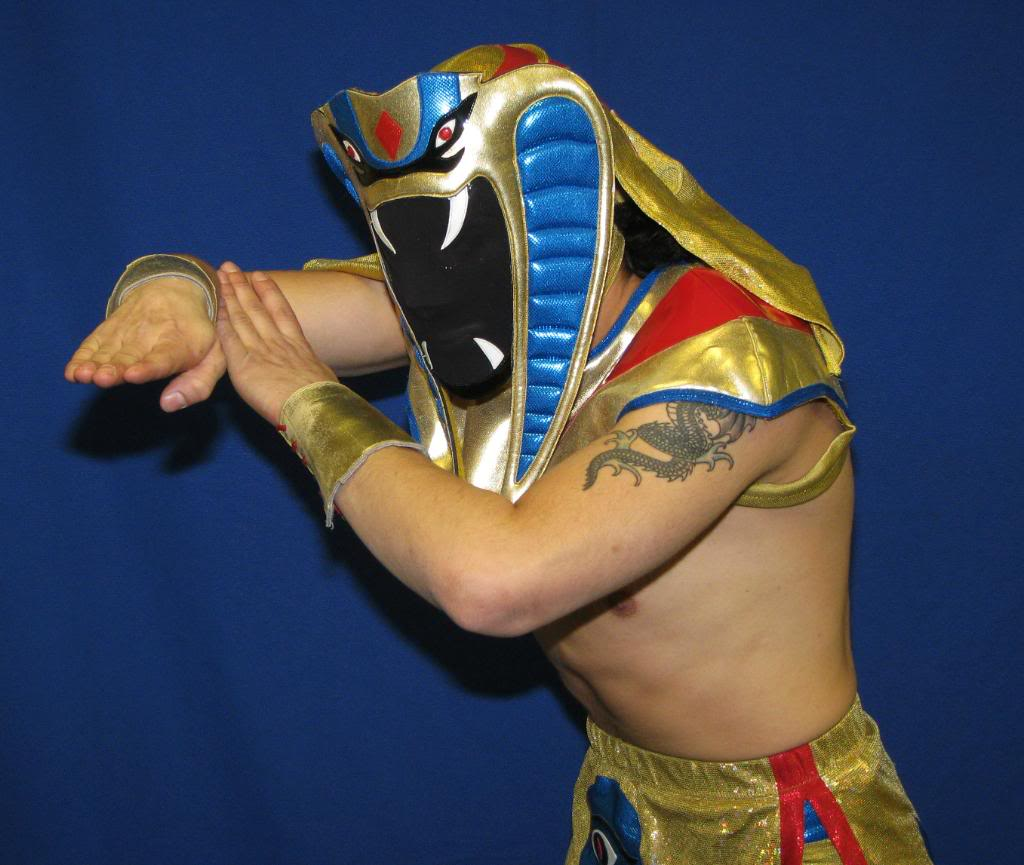 Ophidian Promo shot from JAPW in late 2010